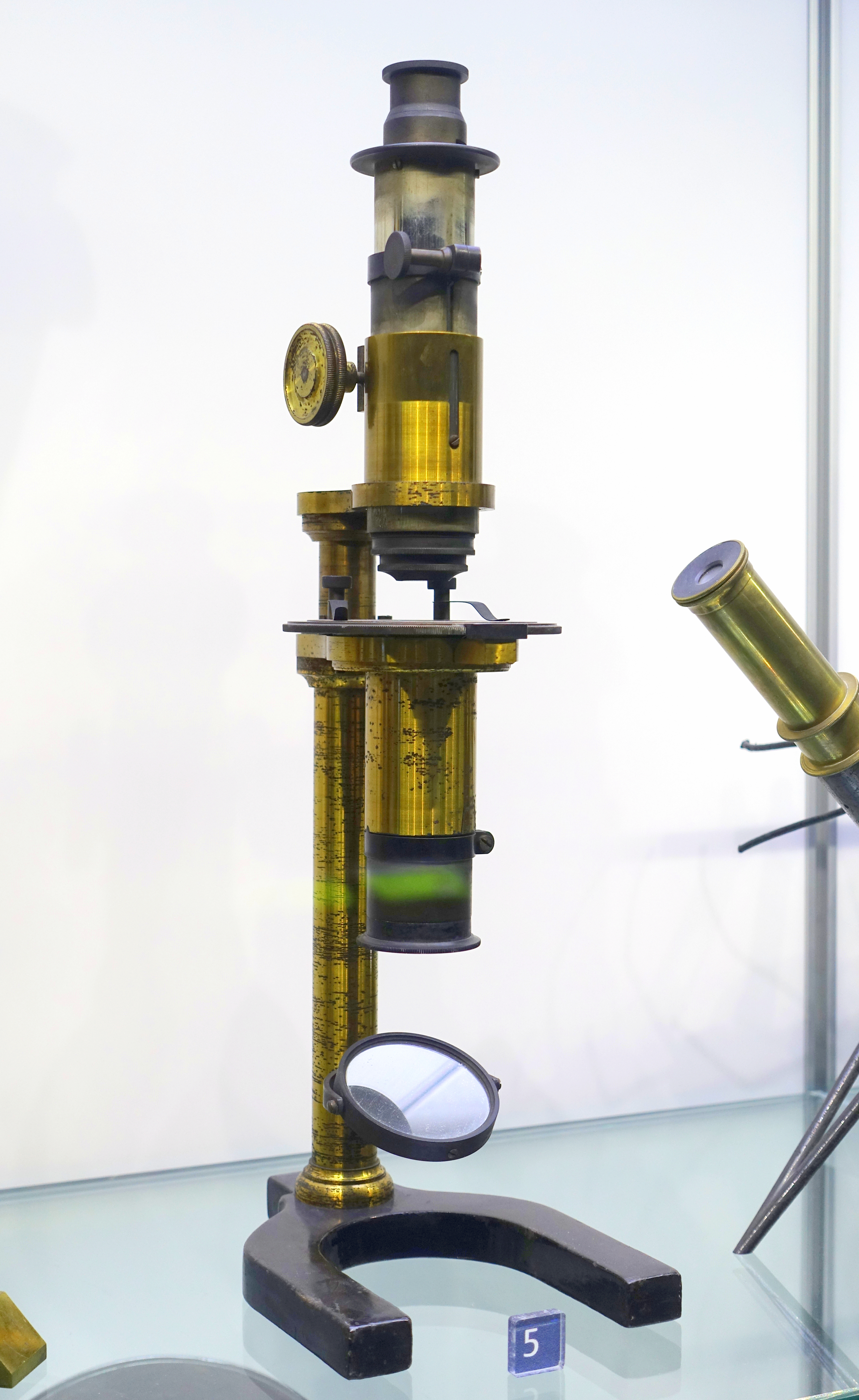 Exhibit in the Museum of Science and Industry, Chicago, Illinois, USA.